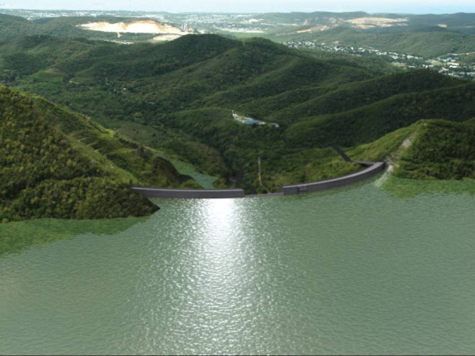 Artist rendering of Portugues Dam